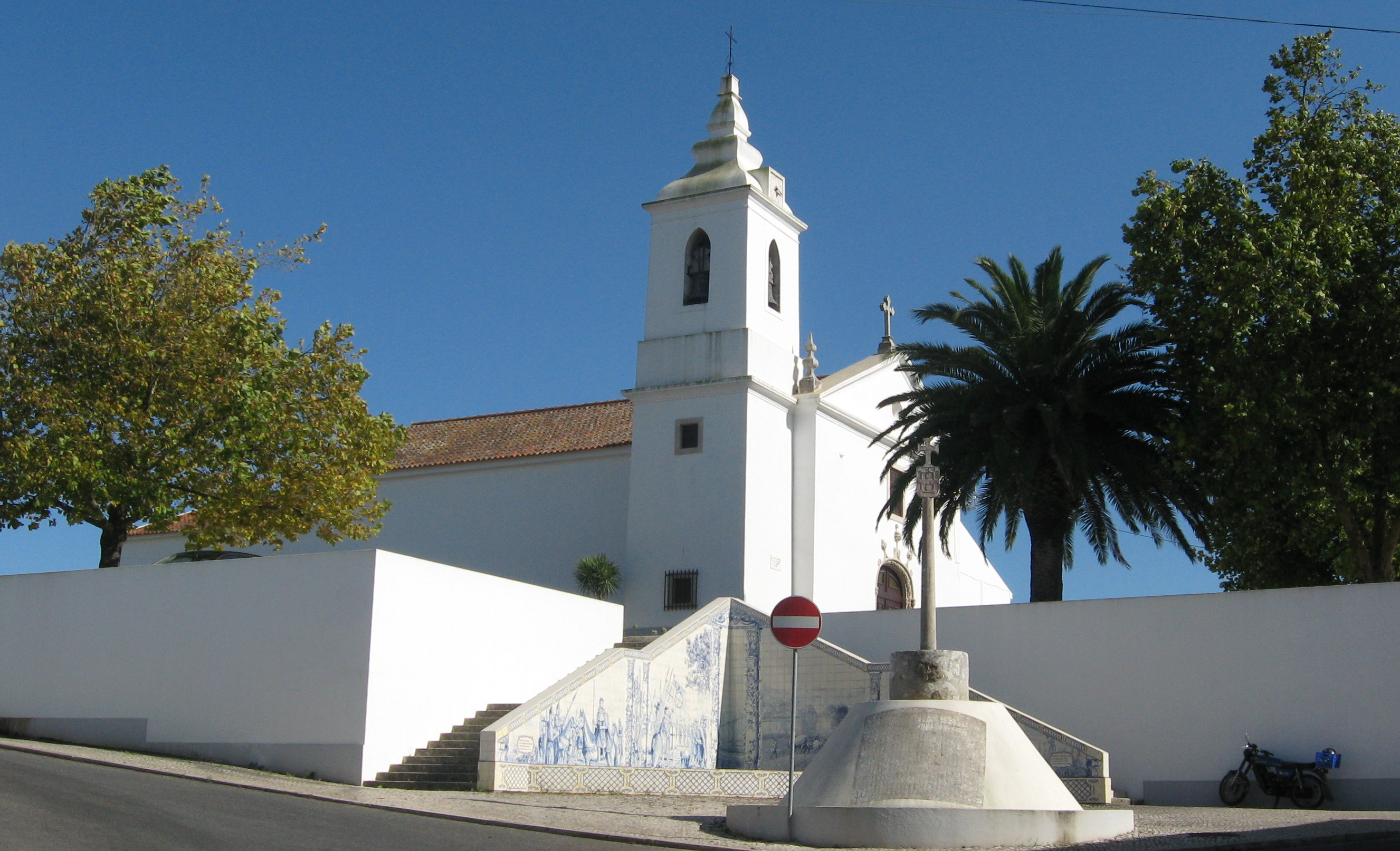 Alcobaça, Portugal, Mosteiro, Coutos de Alcobaça, former county of the Abbey, one of the 13 cities: Alvorninha, Igreja (church) de Nossa Senhora de Visitacao, original 16th century, destroyed 1755, rebuilt, cross from 1640, azulejos from 1940